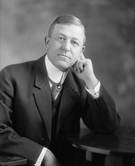 Peter G. Ten Eyck, New York Congressman